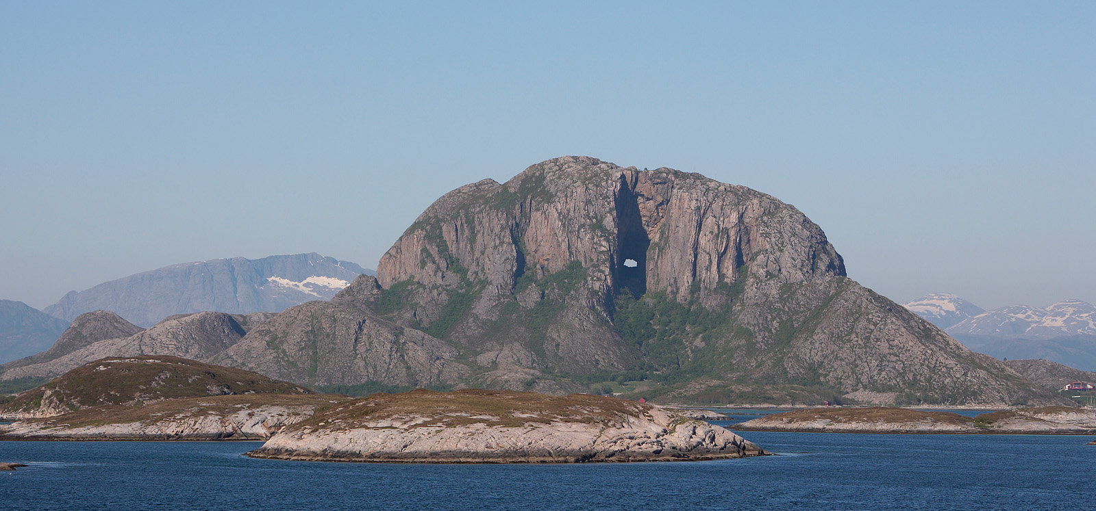 Torghatten